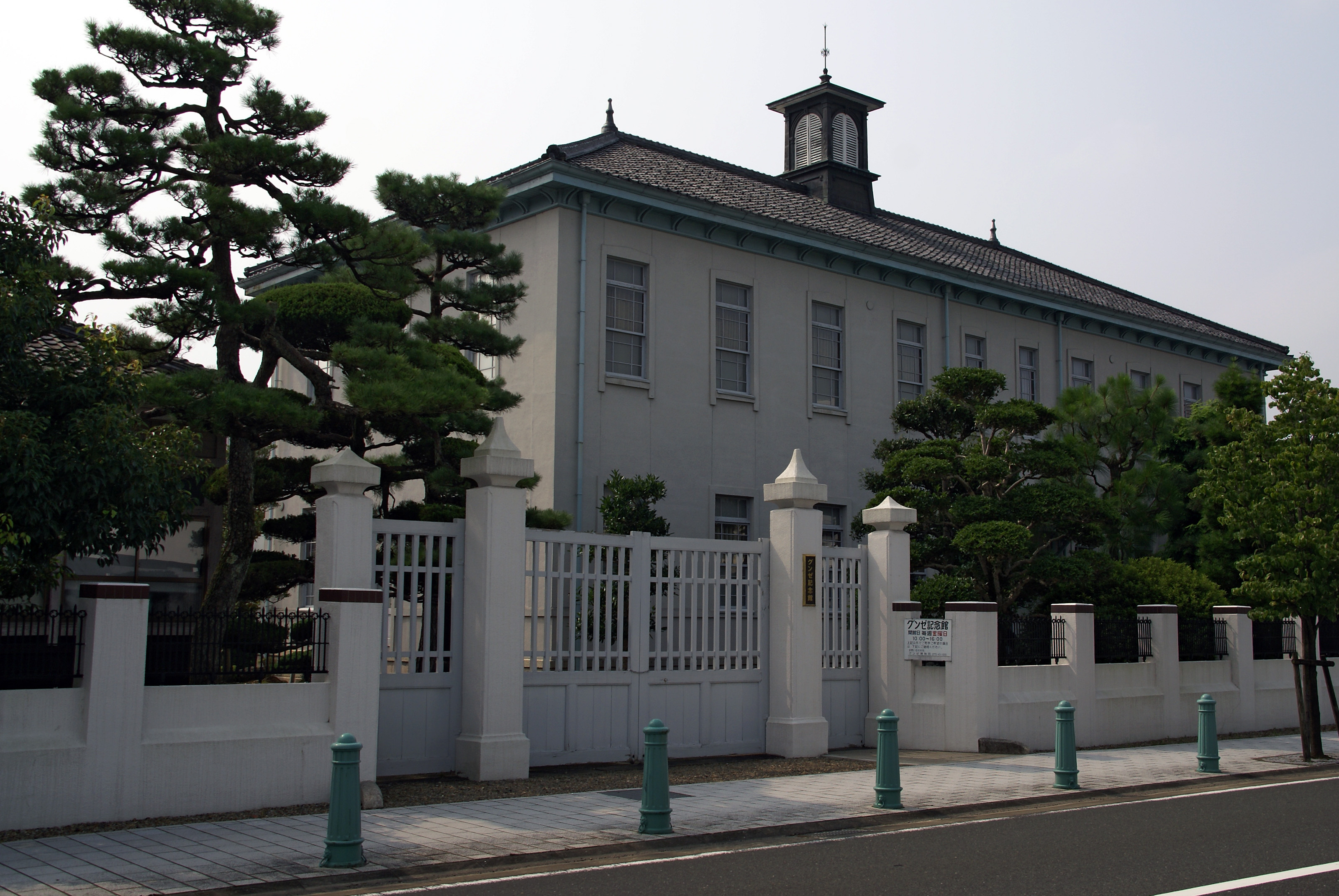 Gunze Memorial Hall in Ayabe, Kyoto prefecture, Japan